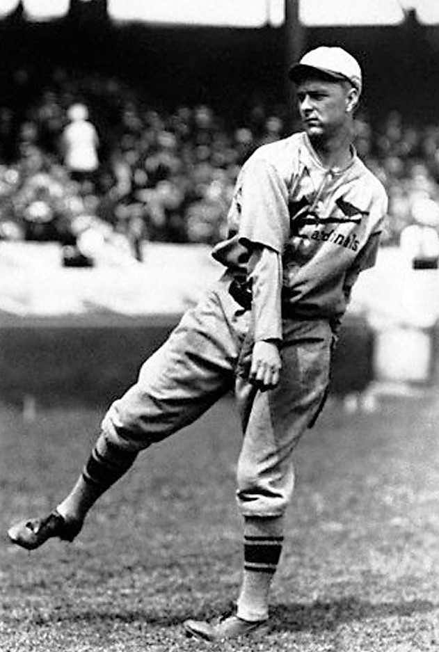 Public Domain image of Fred Frankhouse pitching in his first game as a St. Louis Cardinal